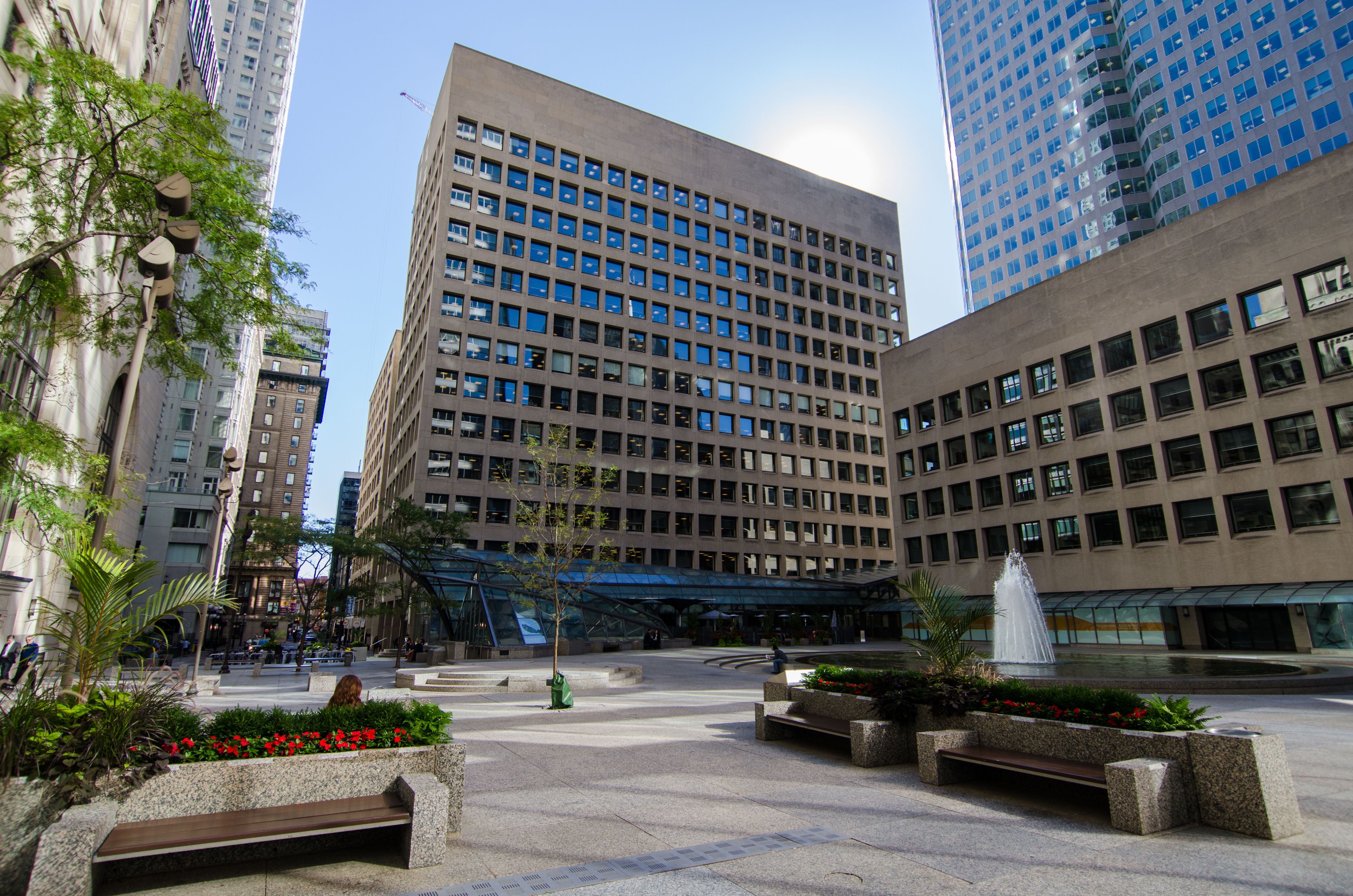 Seen in Flashpoint episode #101.